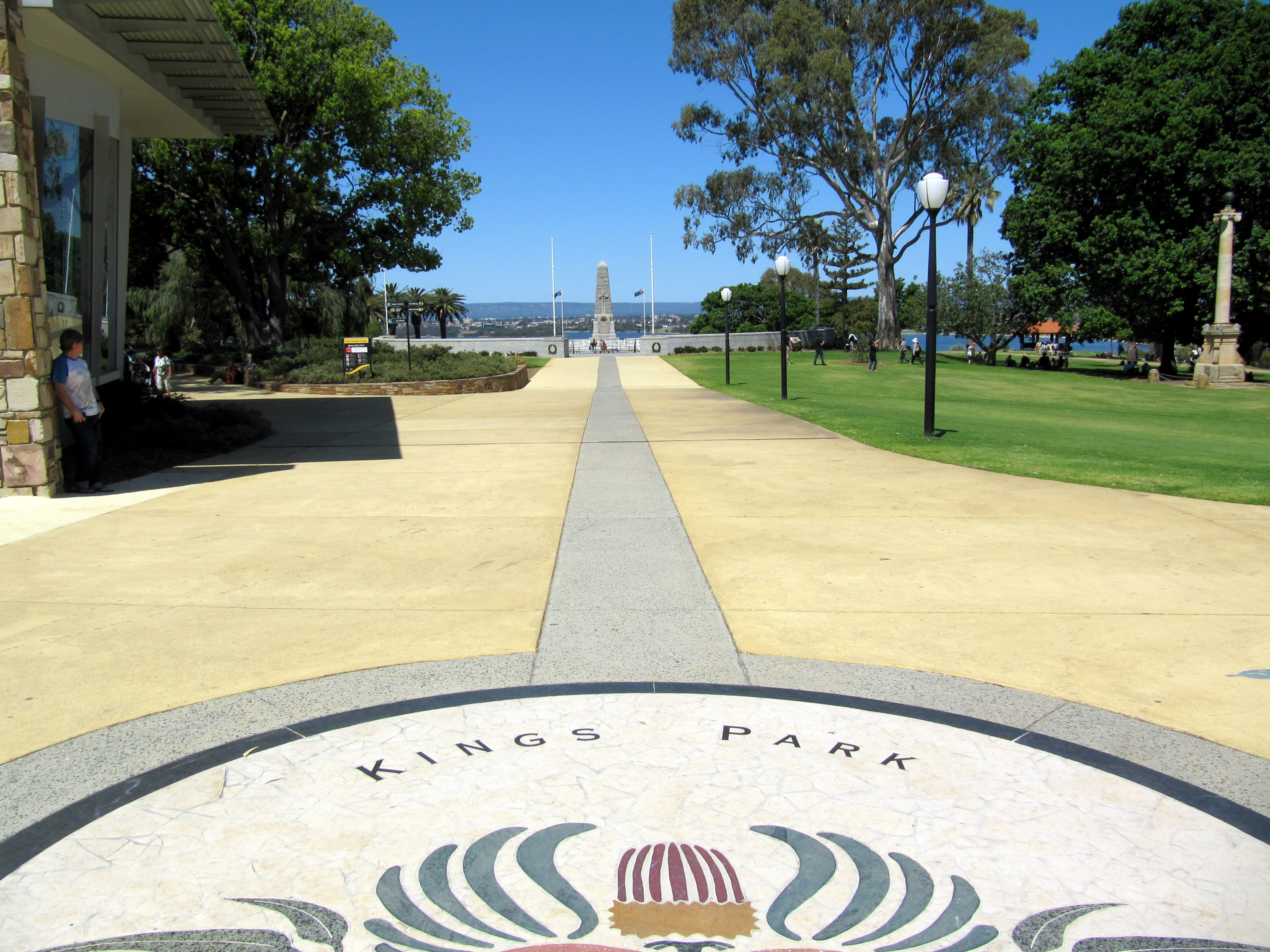 View at the entrance of the Botanic Garden in Perth, Western Australia